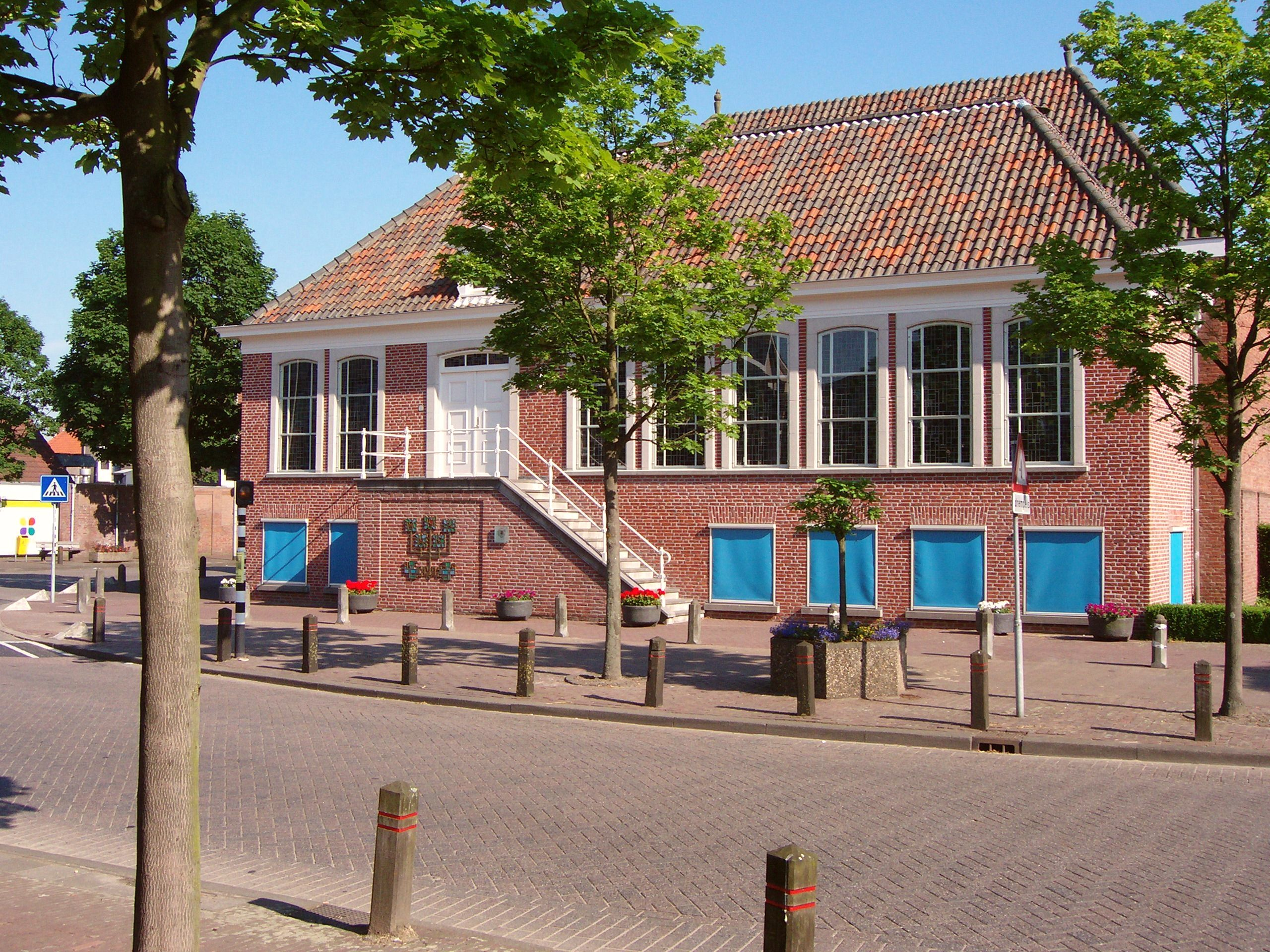 Town hall of municipality Rucphen